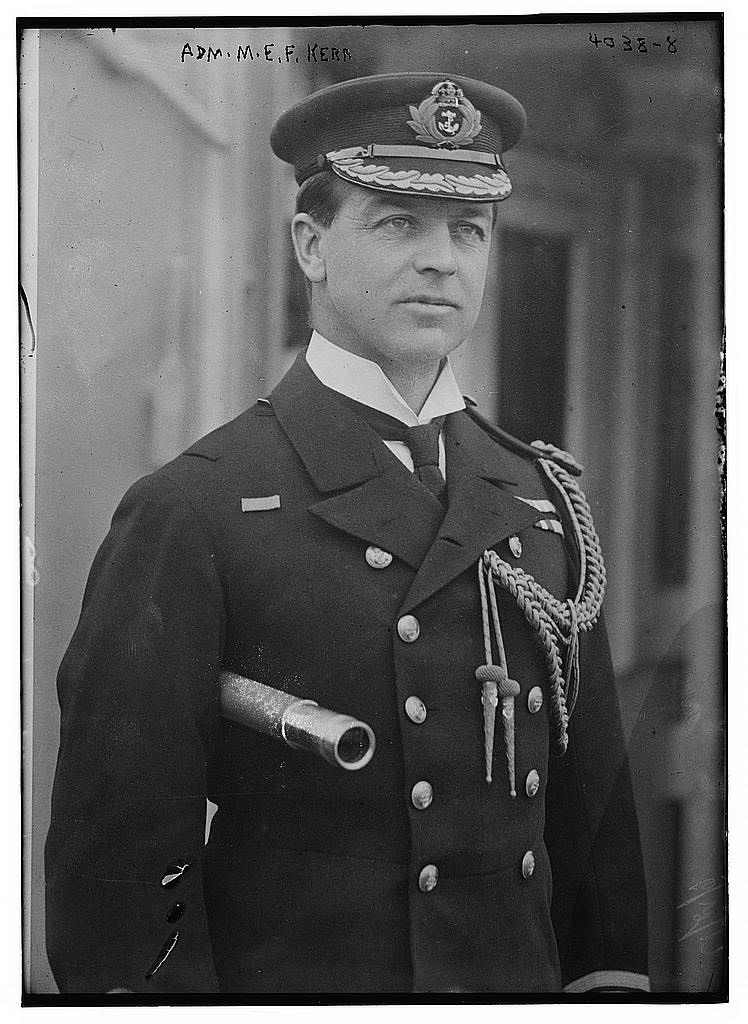 Mark Edward Frederic Kerr in 1916